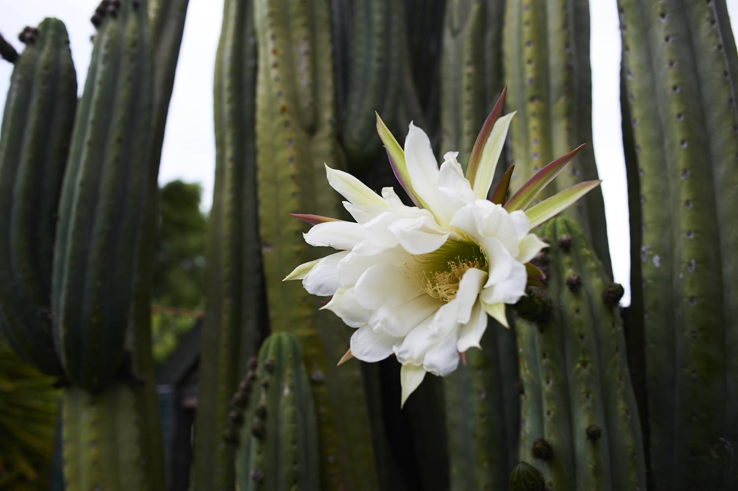 flower four